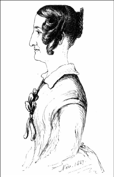 Miss Sarah Anne ‘Ducky’ Drake (1803–1857), taken from a sketch by Sarah Lindley or Barbara Lindley. Drake was an accomplished botanical artist who worked closely with the botanist John Lindley. Drake was a schoolmate of Lindley’s sister Anne and lived with the Lindley family at Acton Green in London from 1830 until 1847.